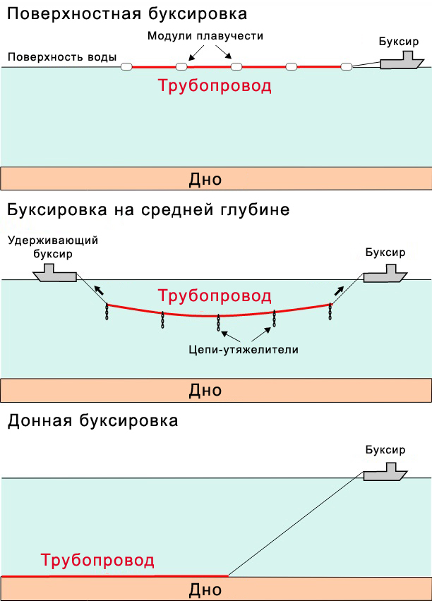 Simplified drawings showing three configurations used to tow subsea pipelines offshore to the planned installation site (not to scale): Surface tow, catenary tow and bottom tow.